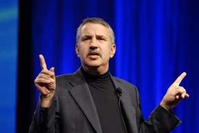 Thomas Friedman presenting his key note address at the National Conference on the Creative Economy in Fairfax County, Virginia